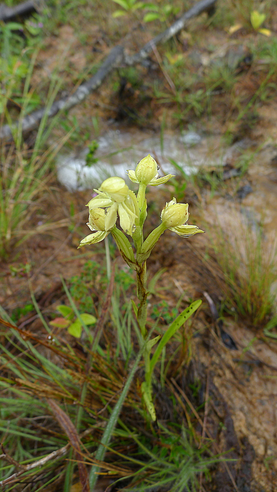 Habenaria pratensis Rchb.f.